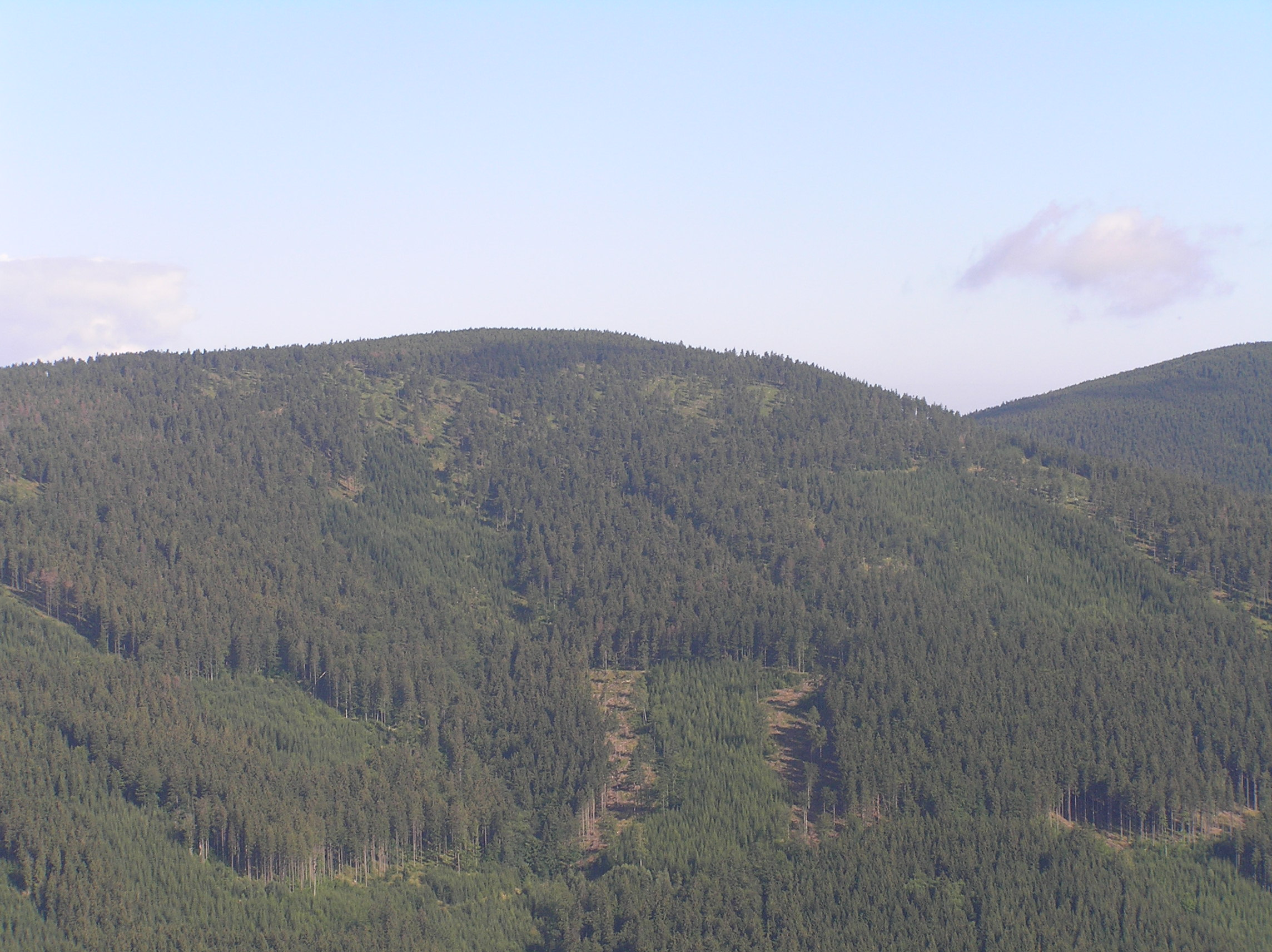 Hleďsebe (1190 m) is the mountain near the the town Králíky, the Králický Sněžník Mountains, Czech Republic